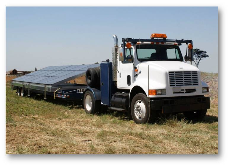 delivery of unit to a customer. picture taken by me